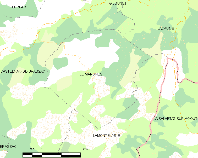 Map commune FR insee code 81153.png - Le Margnès